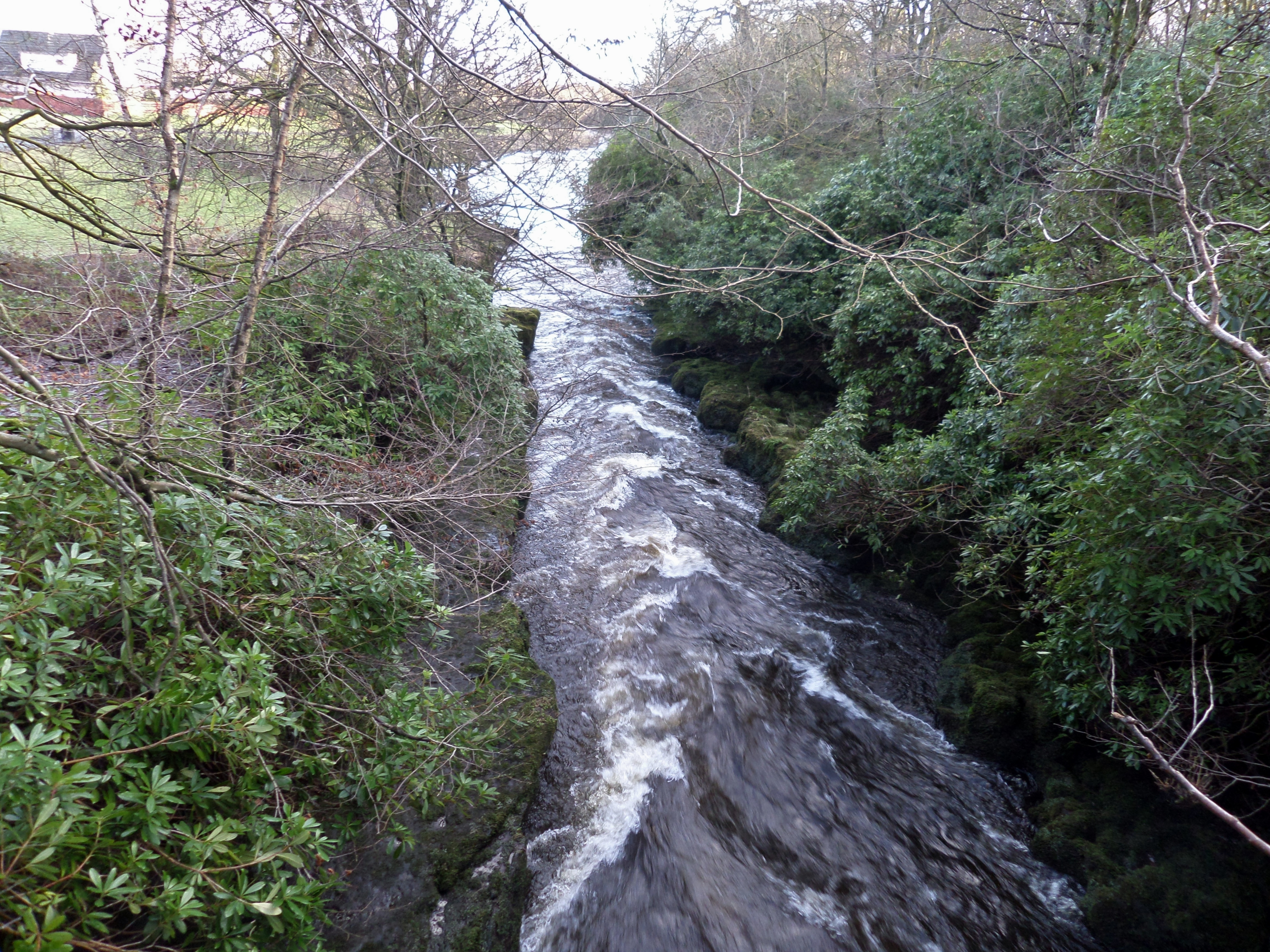 Craigends Falls, River Gryffe, Houston, Renfrewshire, Scotland.